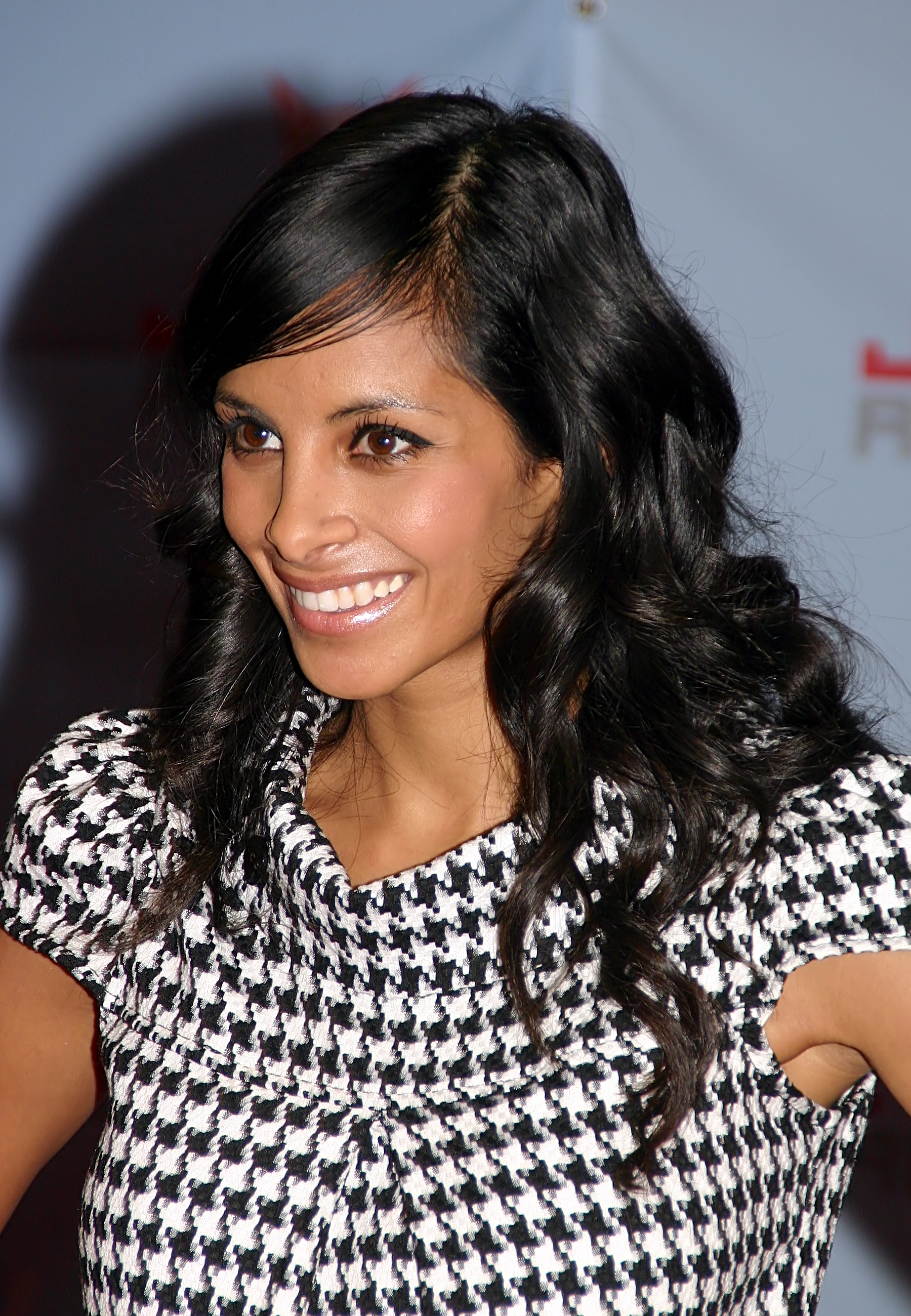 Collien Fernandes during the conferment of the JETIX Award at the youth fair "YOU", Berlin